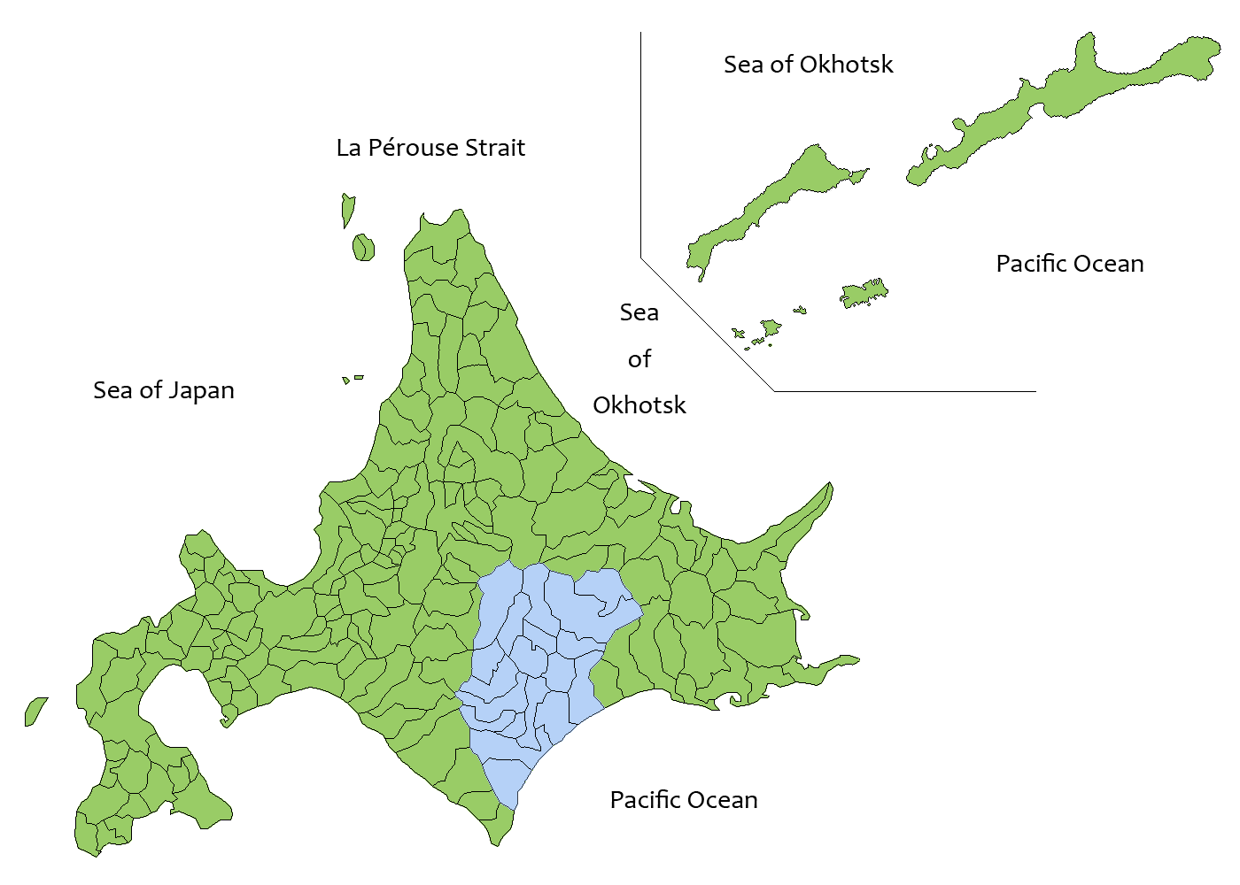 Map of Tokachi subprefecture in English